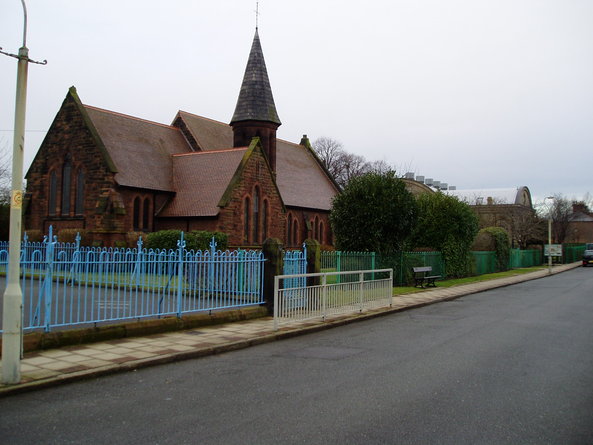 St Matthew's Church, Bromborough Pool Built in 1890 by Price’s who had the candle factory in Bromborough Pool for many years.